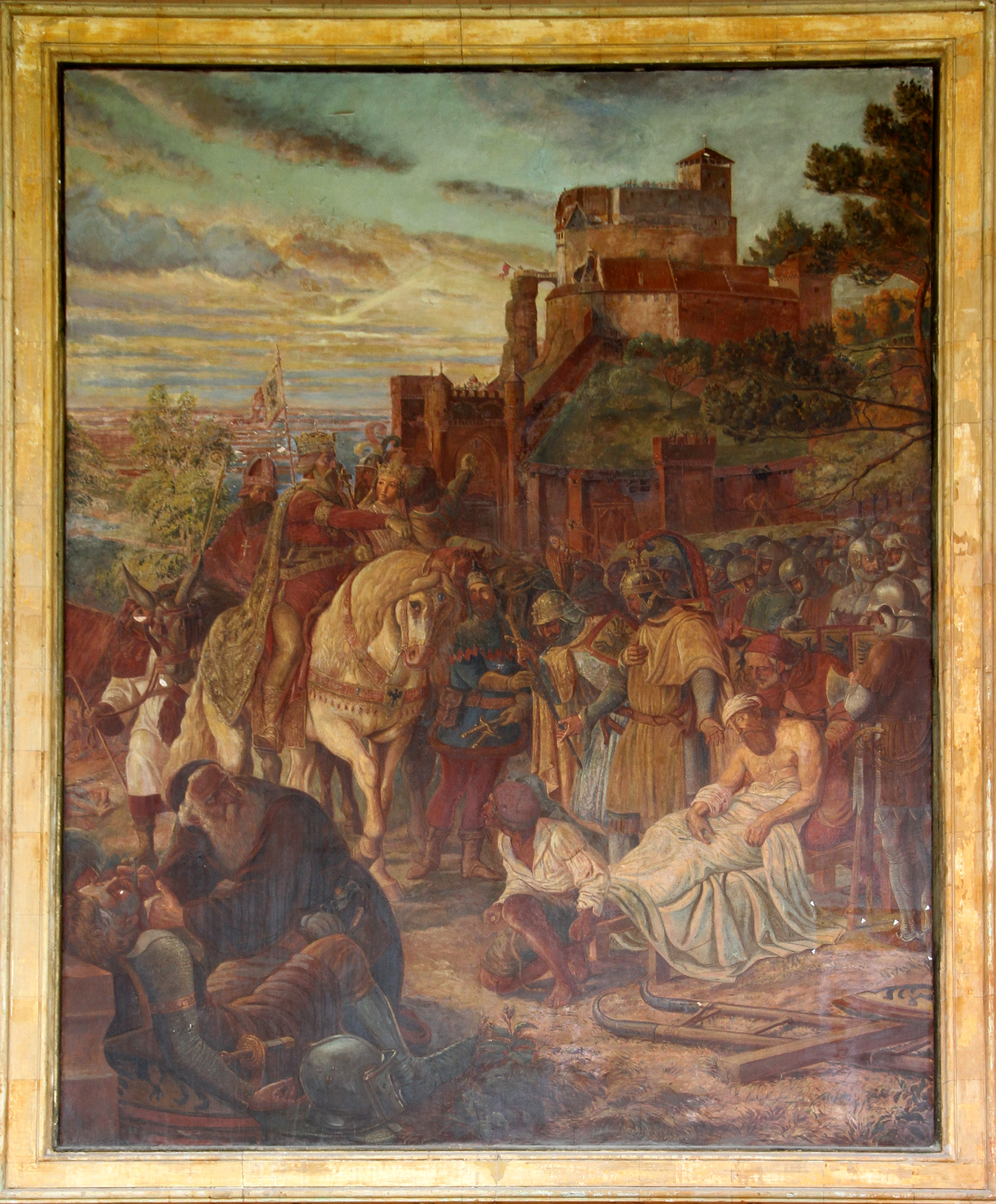 Fresco from the Trinkhalle Baden-Baden.